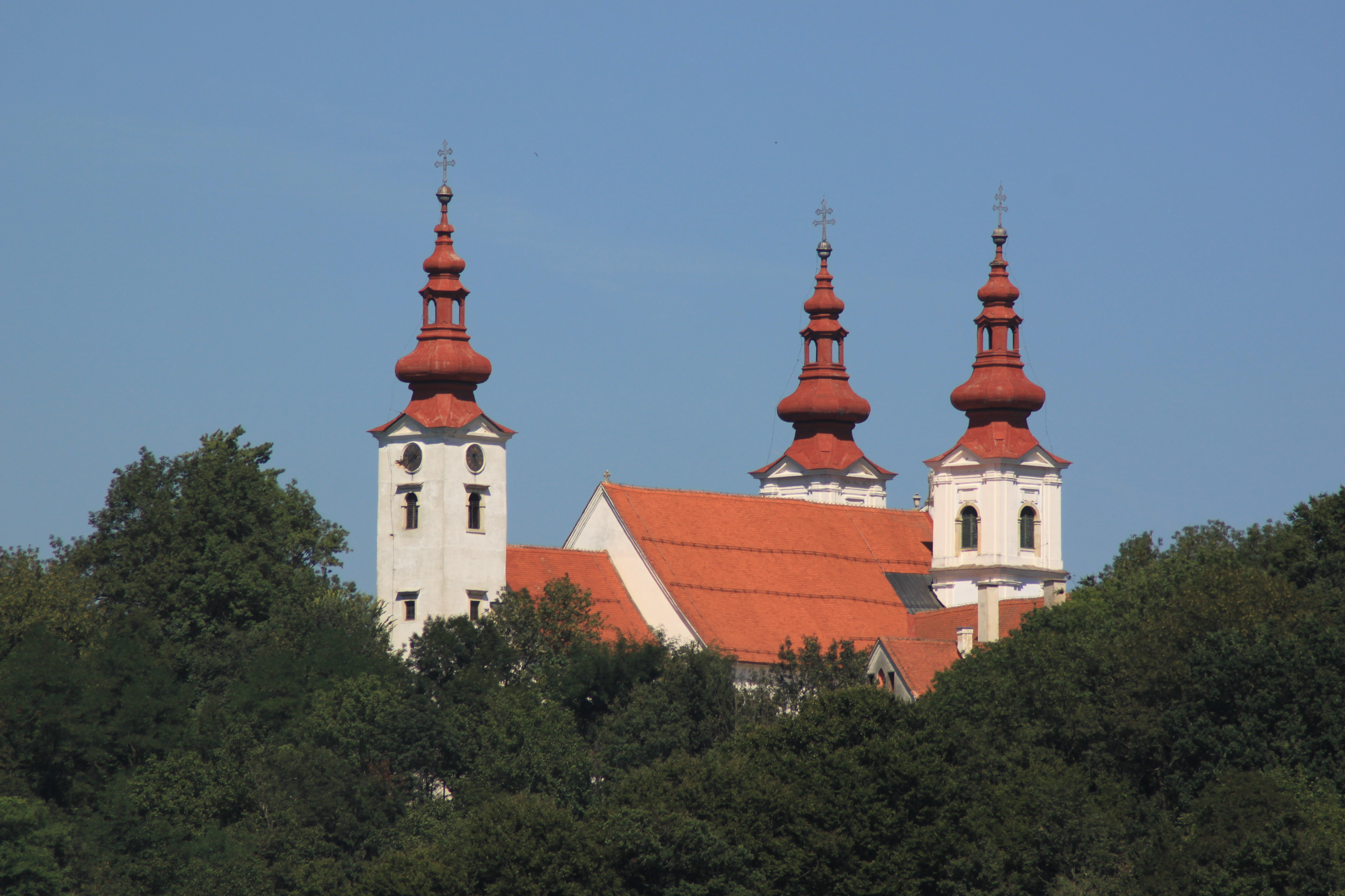 Holy Trinity Church in Sveta Trojica v Slovenskih Goricah; Slovenia, view from the south